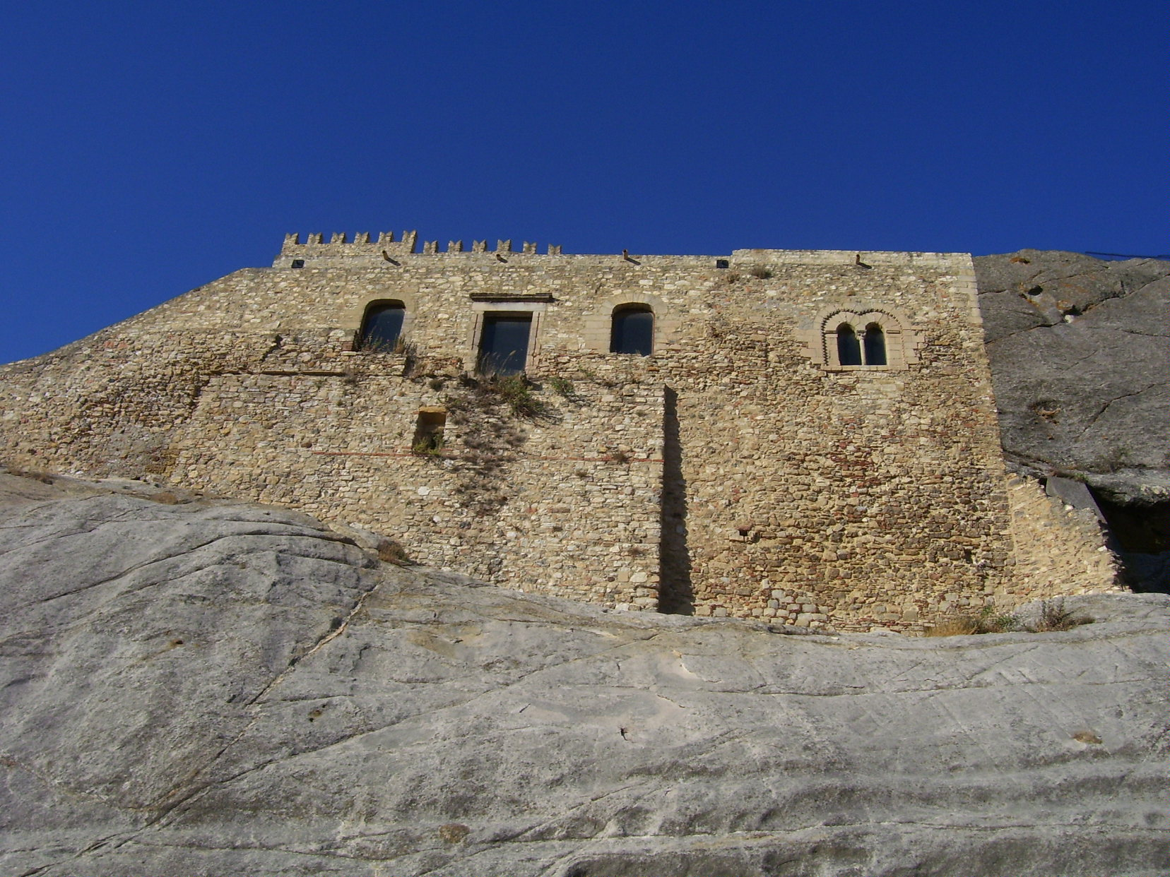 Sperlinga castle (enna, sicily)